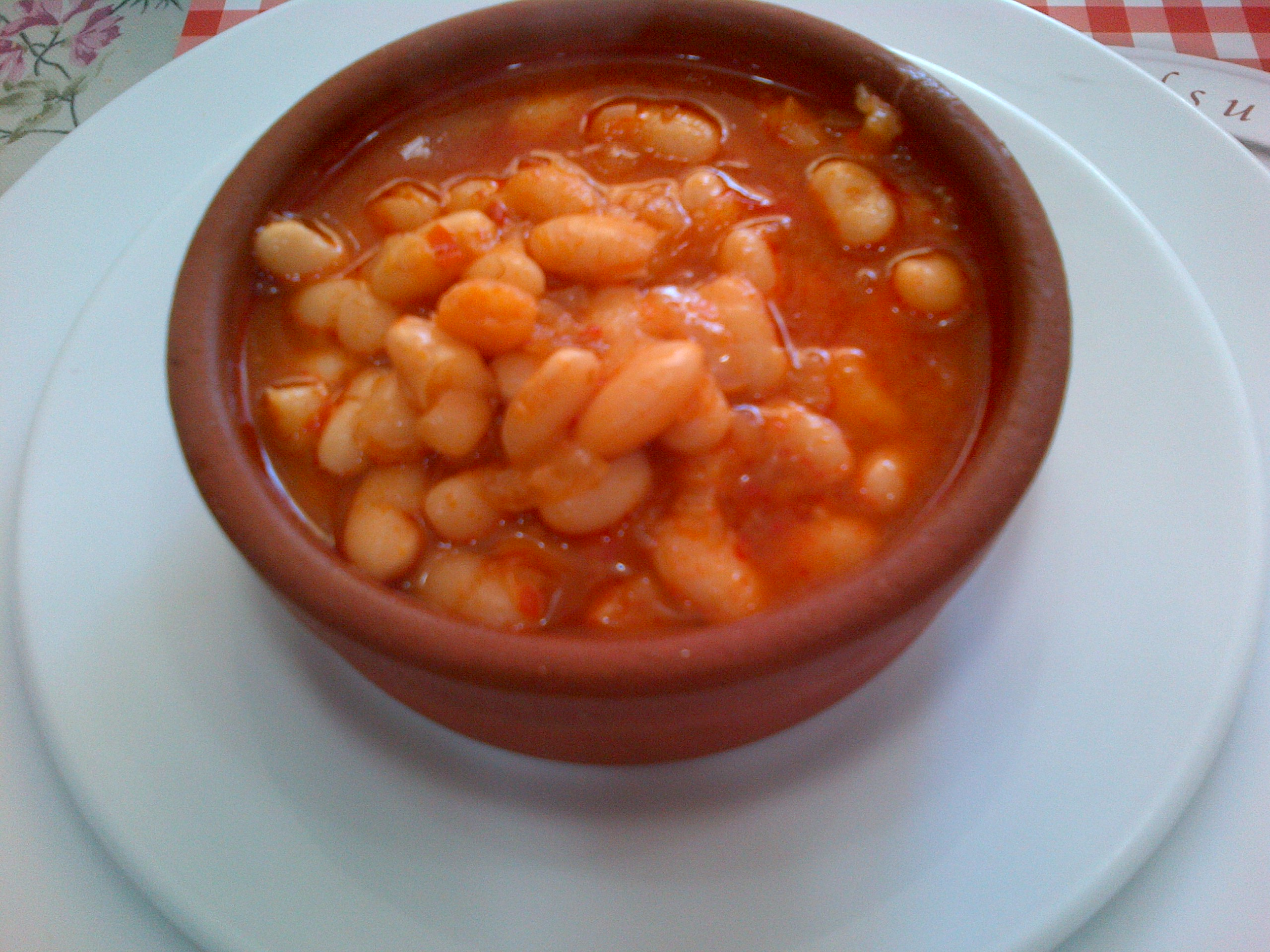 Kuru fasulye güveç